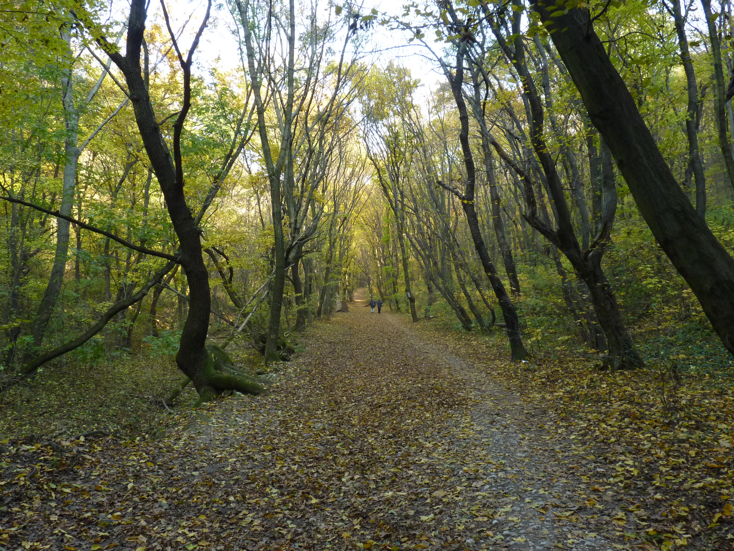 Remete Valley